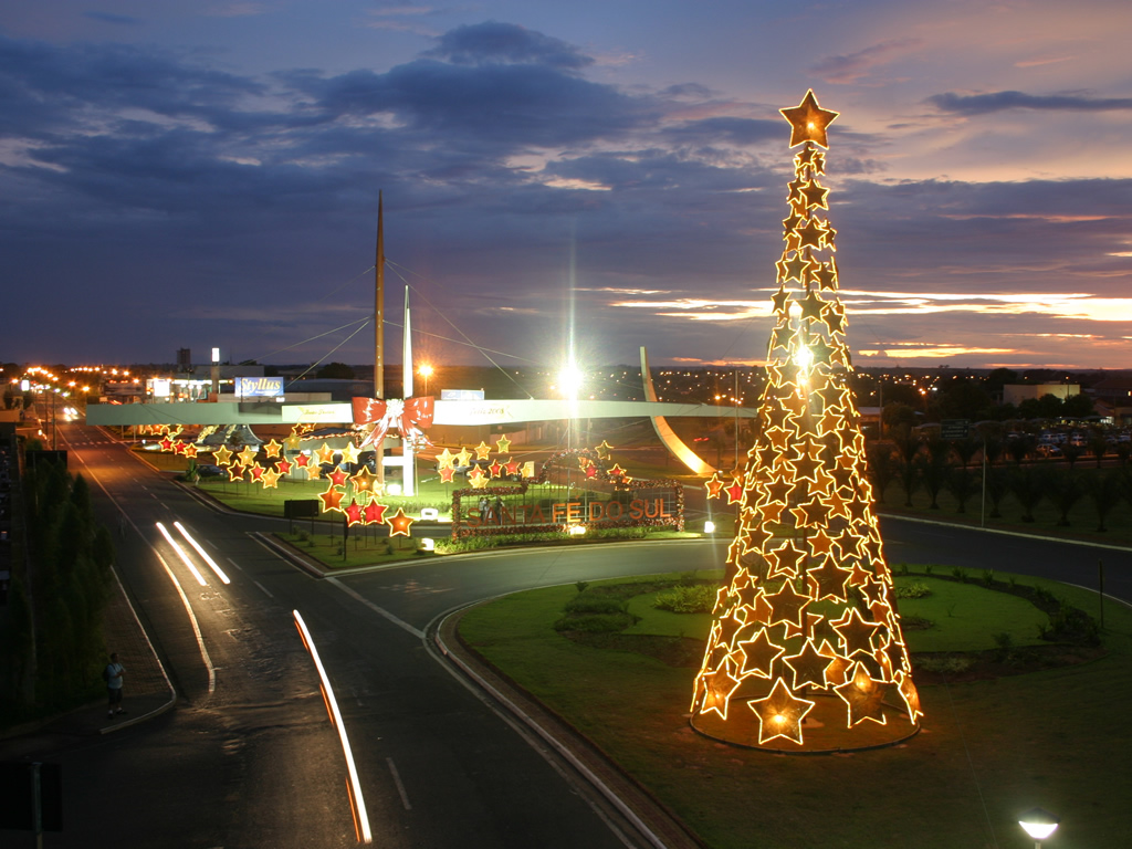 Sonho de Natal - Santa Fé do Sul